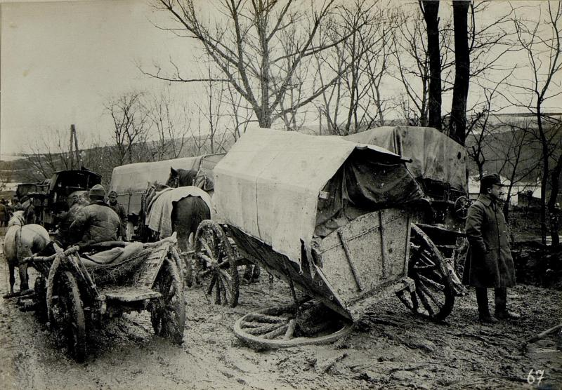 Straßenbild in Podhajce